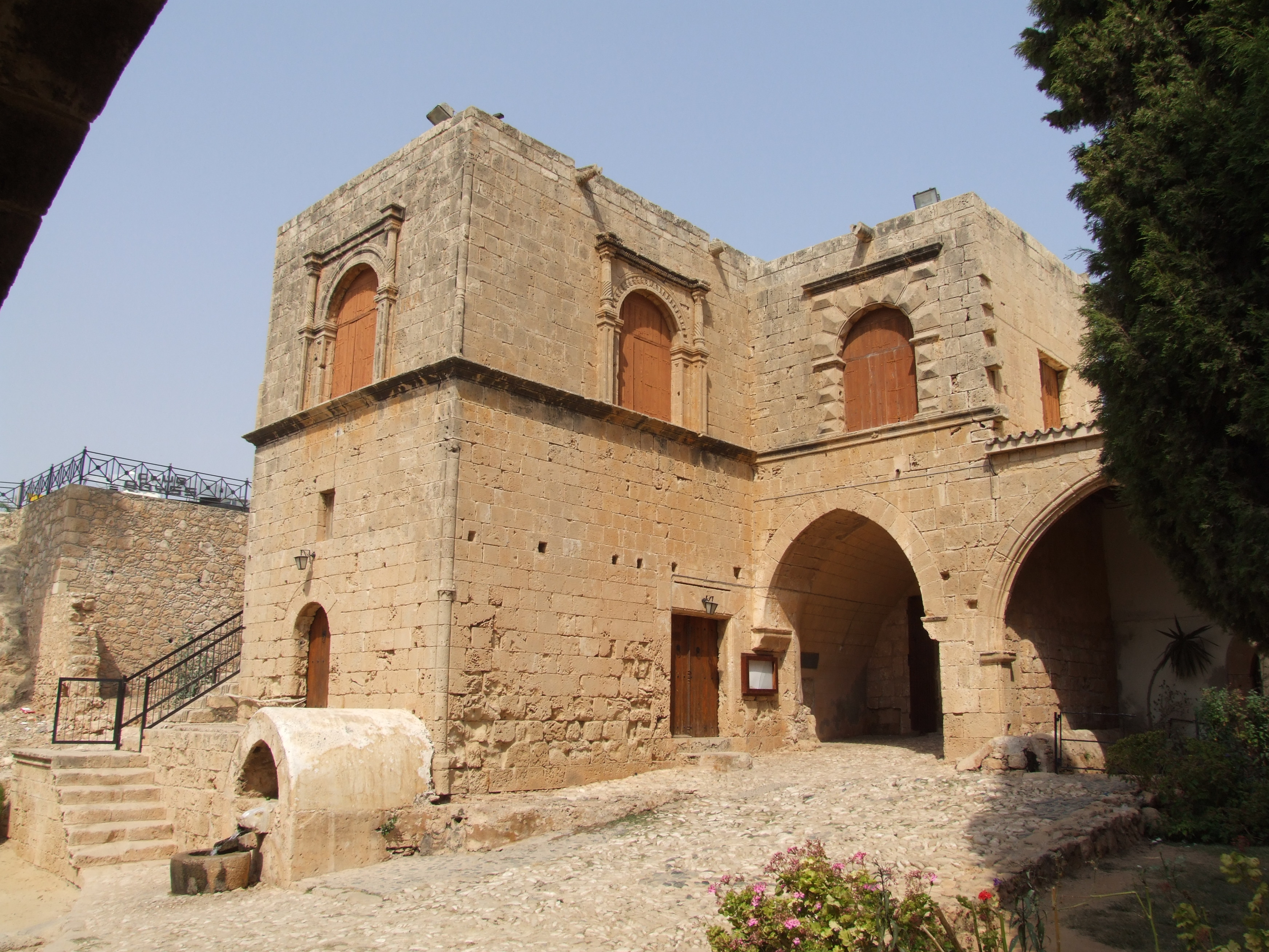 Agia Napa Monastery